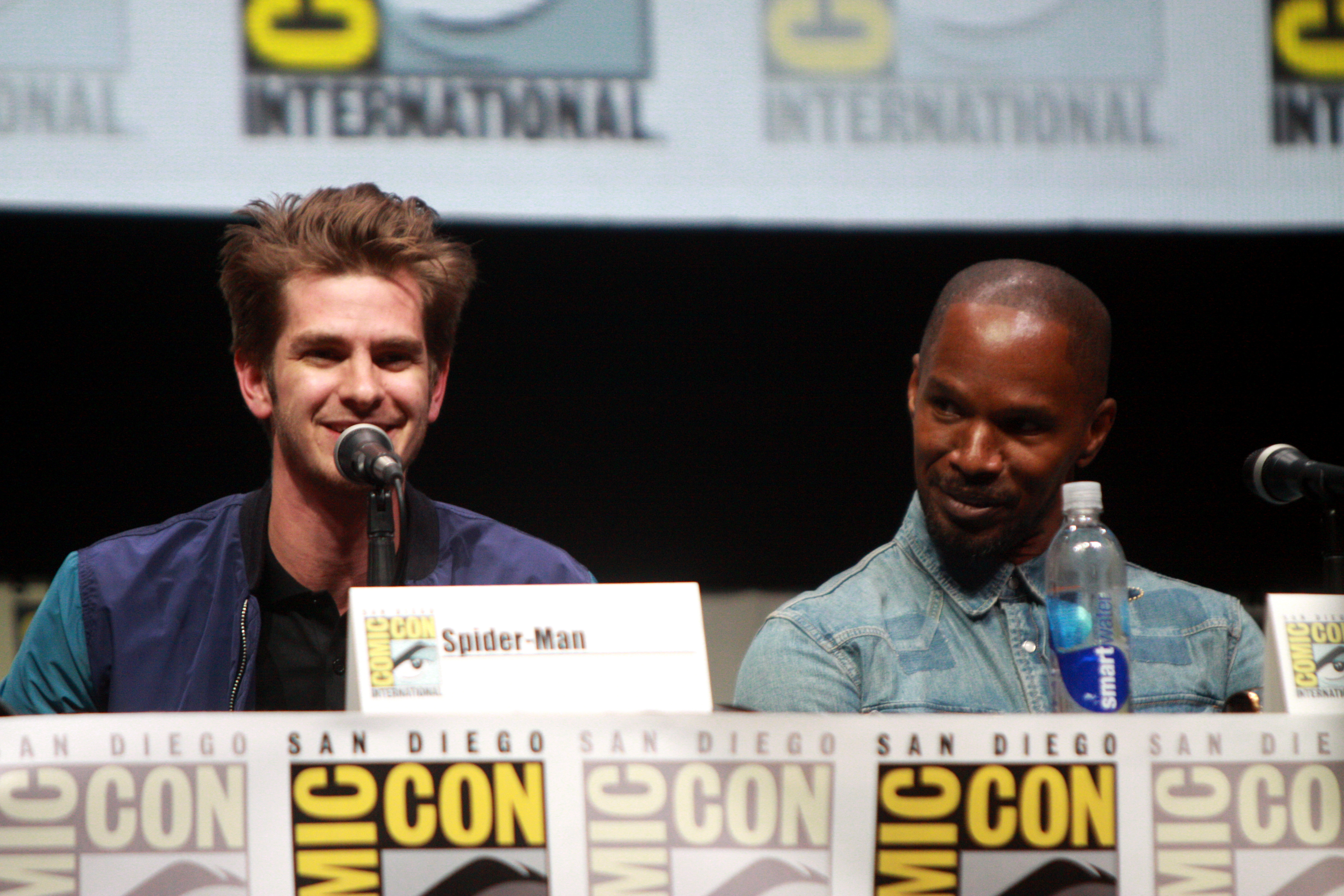 Andrew Garfield and Jamie Foxx at the 2013 San Diego Comic Con International in San Diego, California.